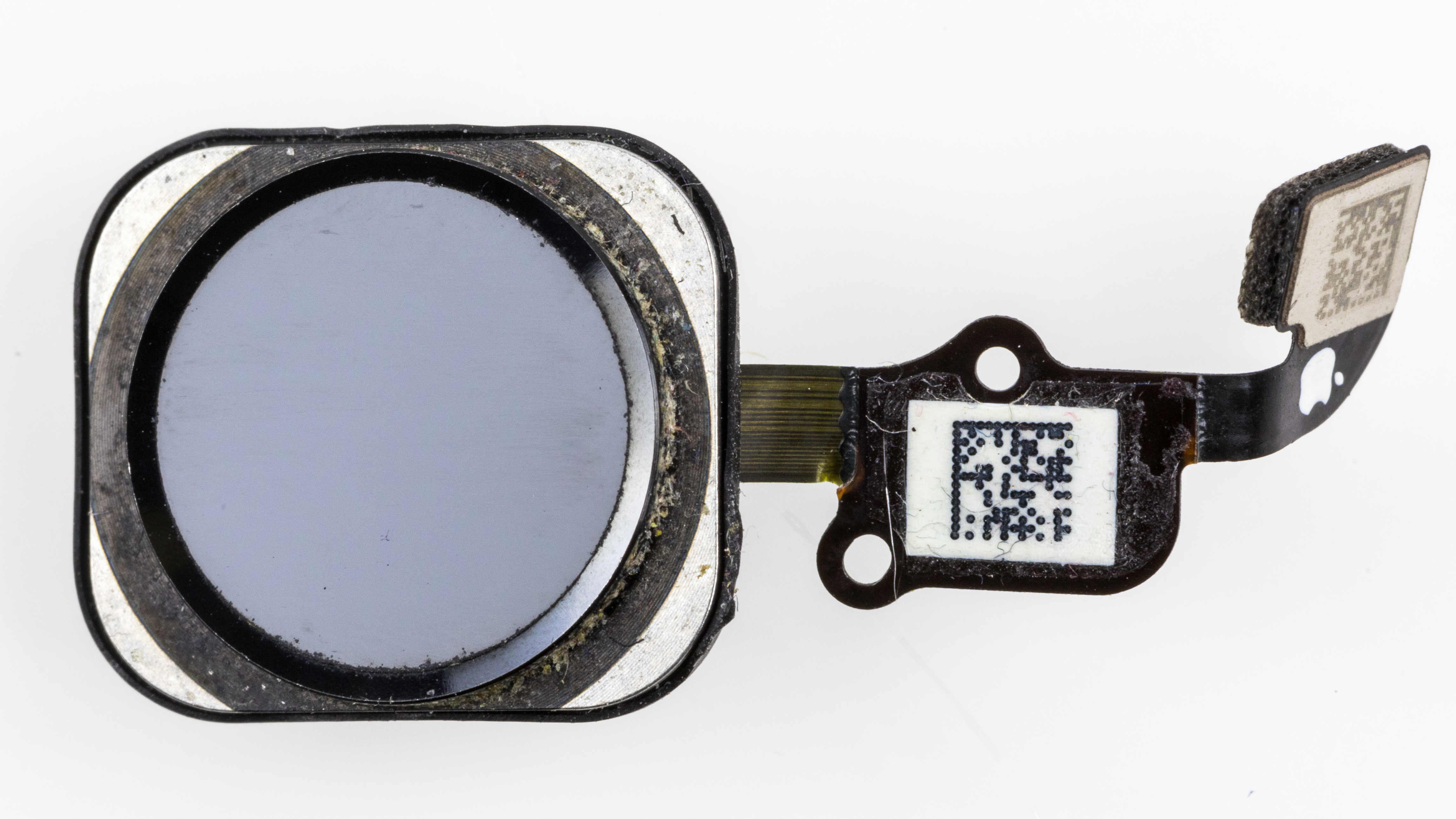 IPhone 6s - Touch ID front view